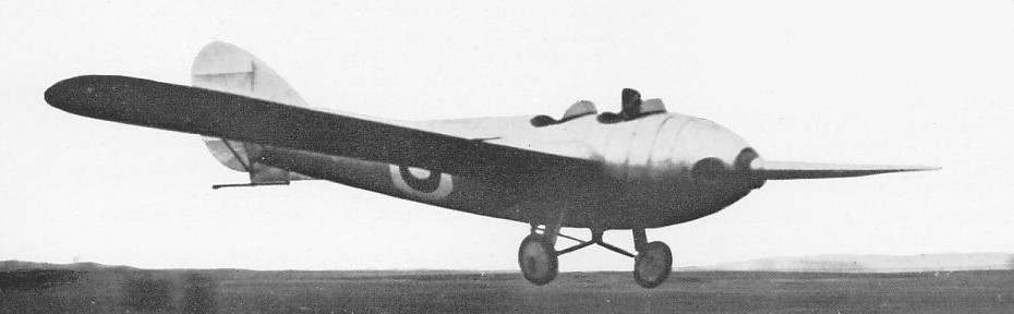 Scanned in from the manufacturer's promotional/house publication "Shorts Quarterly Review Vol.2, No.3, Autumn 1953", which has been in the UK public domain for more than 50 years and is therefore freely available for use here.